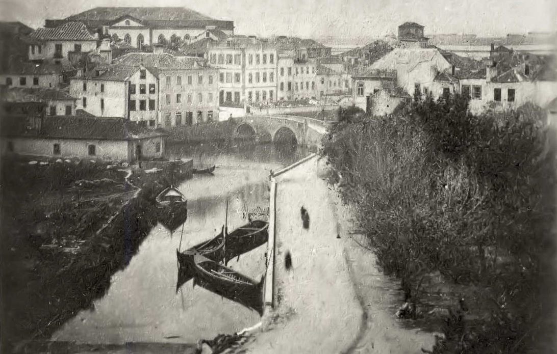 View of the "Cojo" zone (to the left), where the current Lourenço Peixinho Ave. is now located, in Aveiro, Portugal.